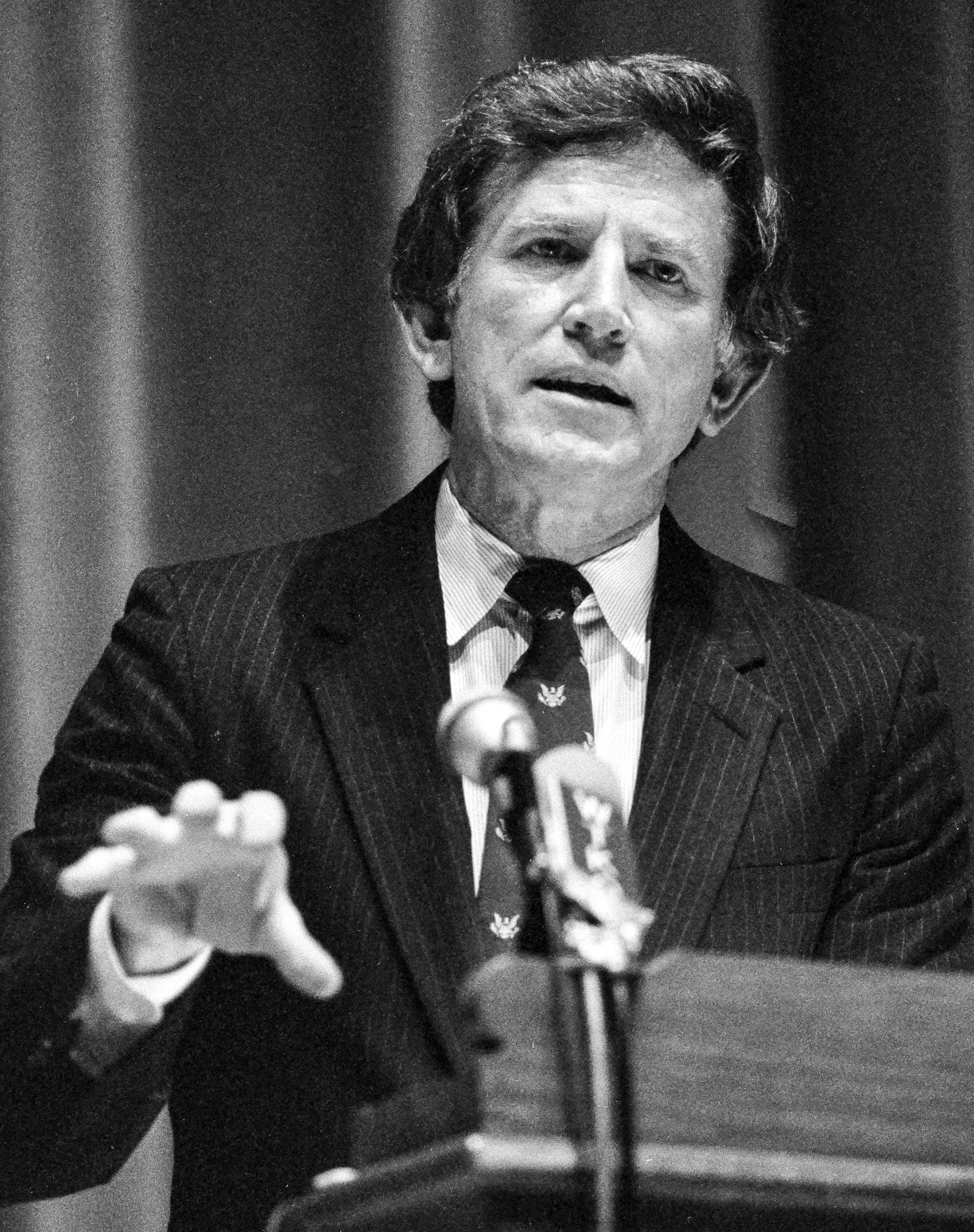 Gary Hart speaks at Bailey Hall, Cornell University (Ithaca, NY). Confirmed date is Monday, November 16, 1987. This wasn't a campaign appearance; Hart had dropped out of the race in May 1987, then re-entered the race on December 15, 1987. I took this photo while a student. Ithaca Journal, 10 November 1987 confirms the date. Tickets were $4 for students and $5 for non-students.